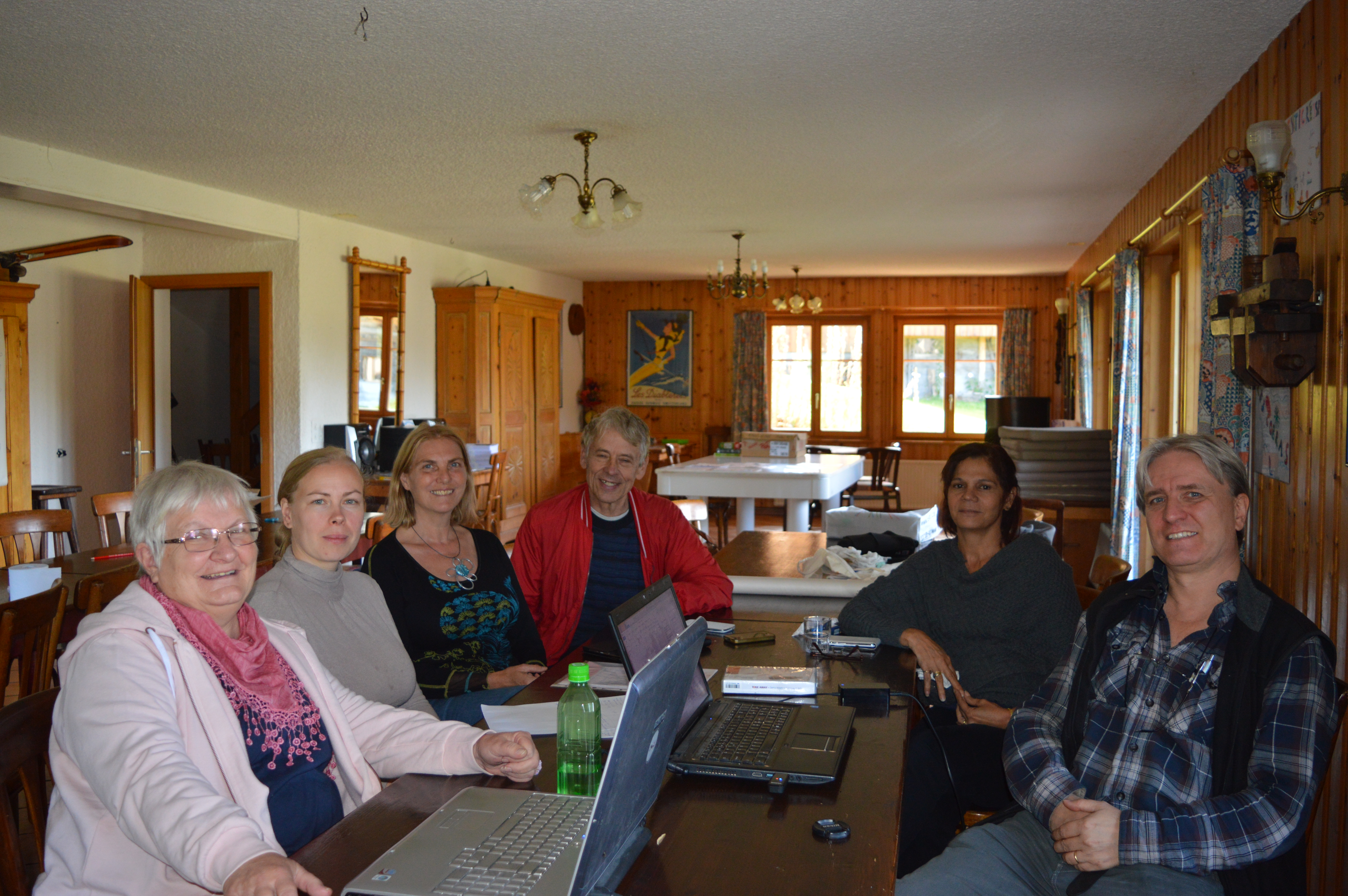 Board of the Swiss Esperanto-Society during 8th SFERO 2015, La Lècherette, canton of Vaud, Switzerland